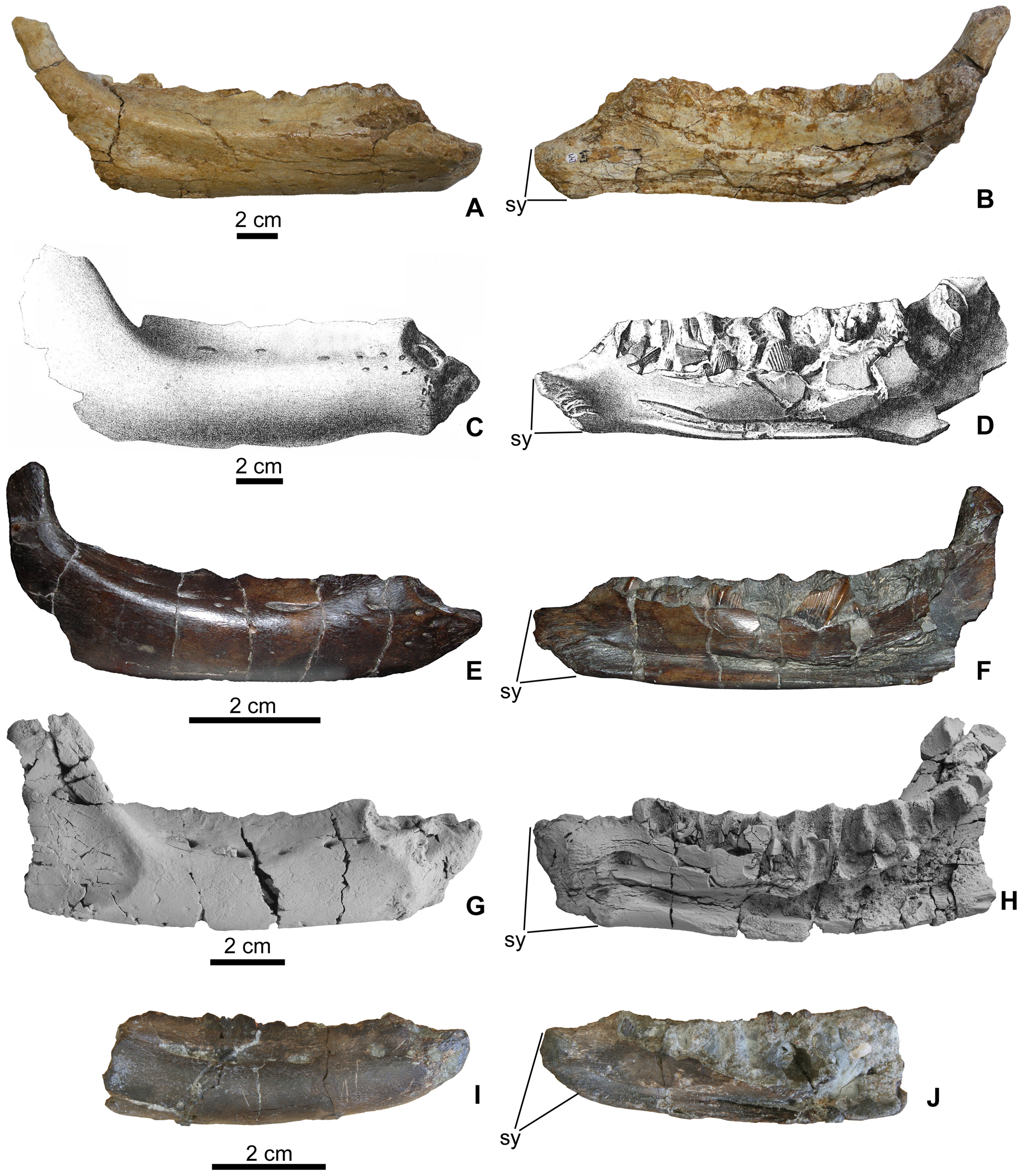 Comparison of rhabdodontid dentaries. A, Rhabdodon sp. (MC 443) in lateral, B, medial views; C, Zalmoxes robustus (NHMUK R4912) in lateral, D, medial views; E, Mochlodon suessi (PIUW 2349/2) in lateral, F, medial views; G, Mochlodon vorosi n. sp. (MTM V 2010.105.1) in lateral, H, medial views; I, Smallest dentary of Mochlodon vorosi n. sp. (MTM V 2010.109.1) in lateral, J, medial views. Anatomical abbreviation: sy, smyphysis.